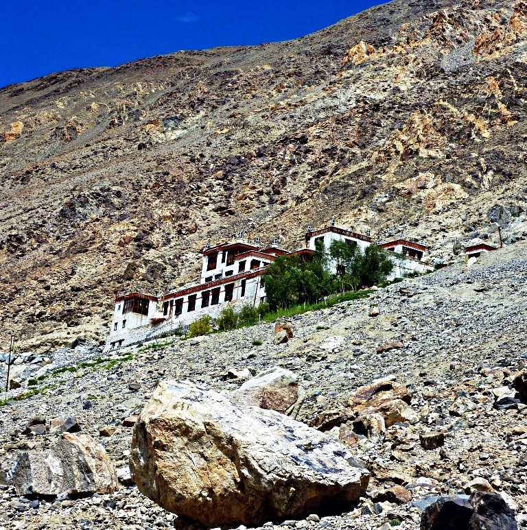 I took this photo on a trip across the Changthang in 2010